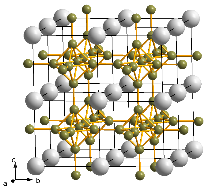 Crystal structure of Calcium hexaboride